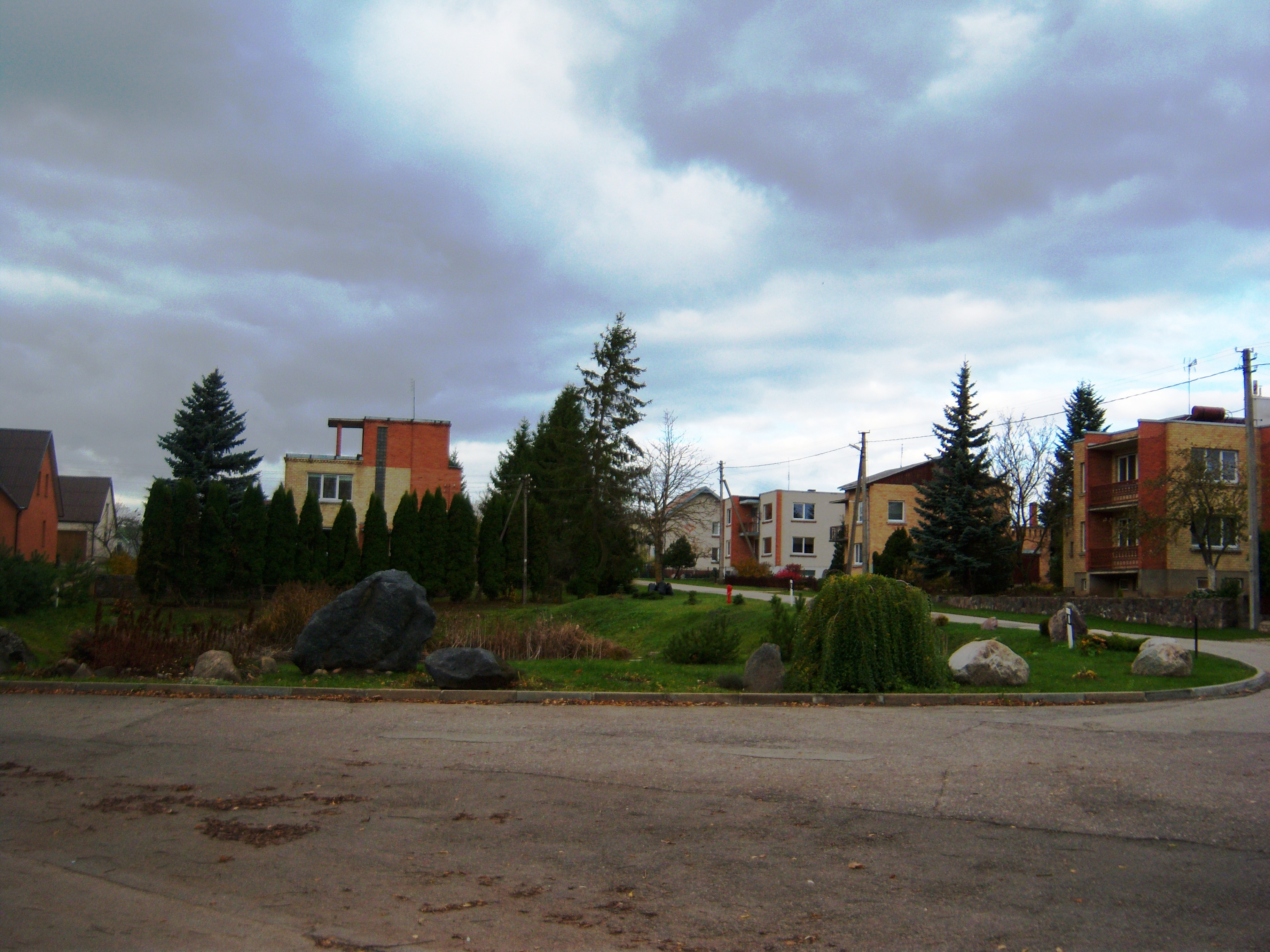 Berčiūnai, Panevėžys District, Lithuania